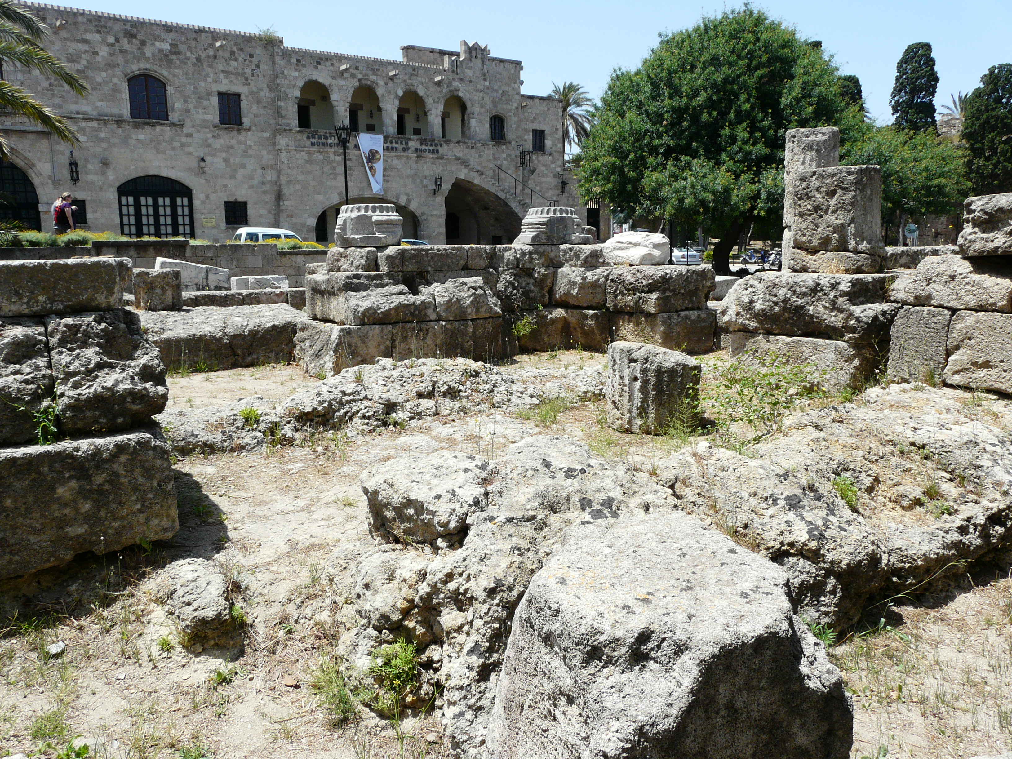 City of Rhodes.